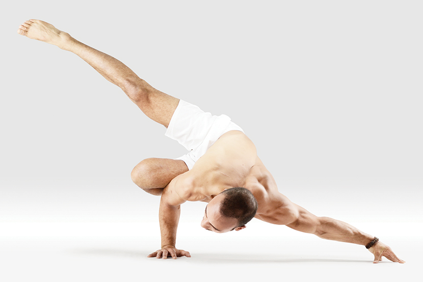 Mr-yoga-koundinia-pose